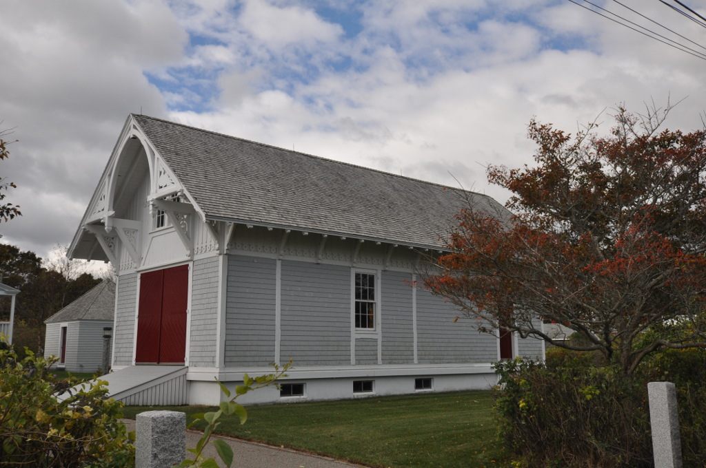 The very first Fletcher's Neck Lifesaving Station, Biddeford Pool, Maine.